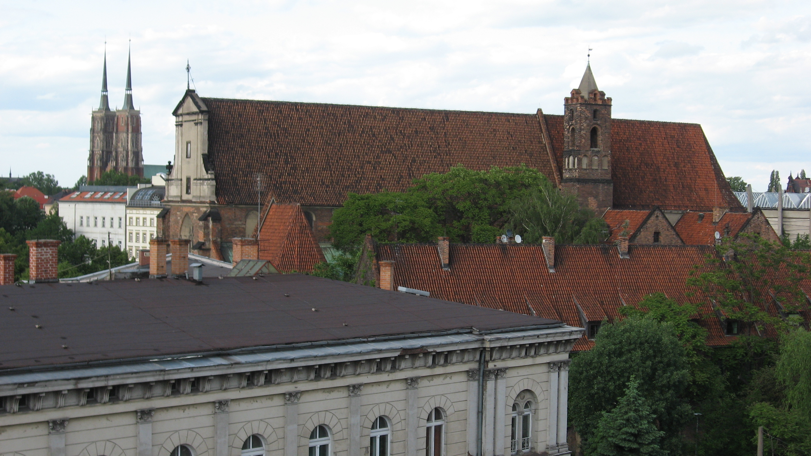 Museum of Architecture in Wrocław in Wrocław.